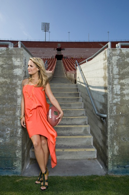 Jenn Brown, American television personality